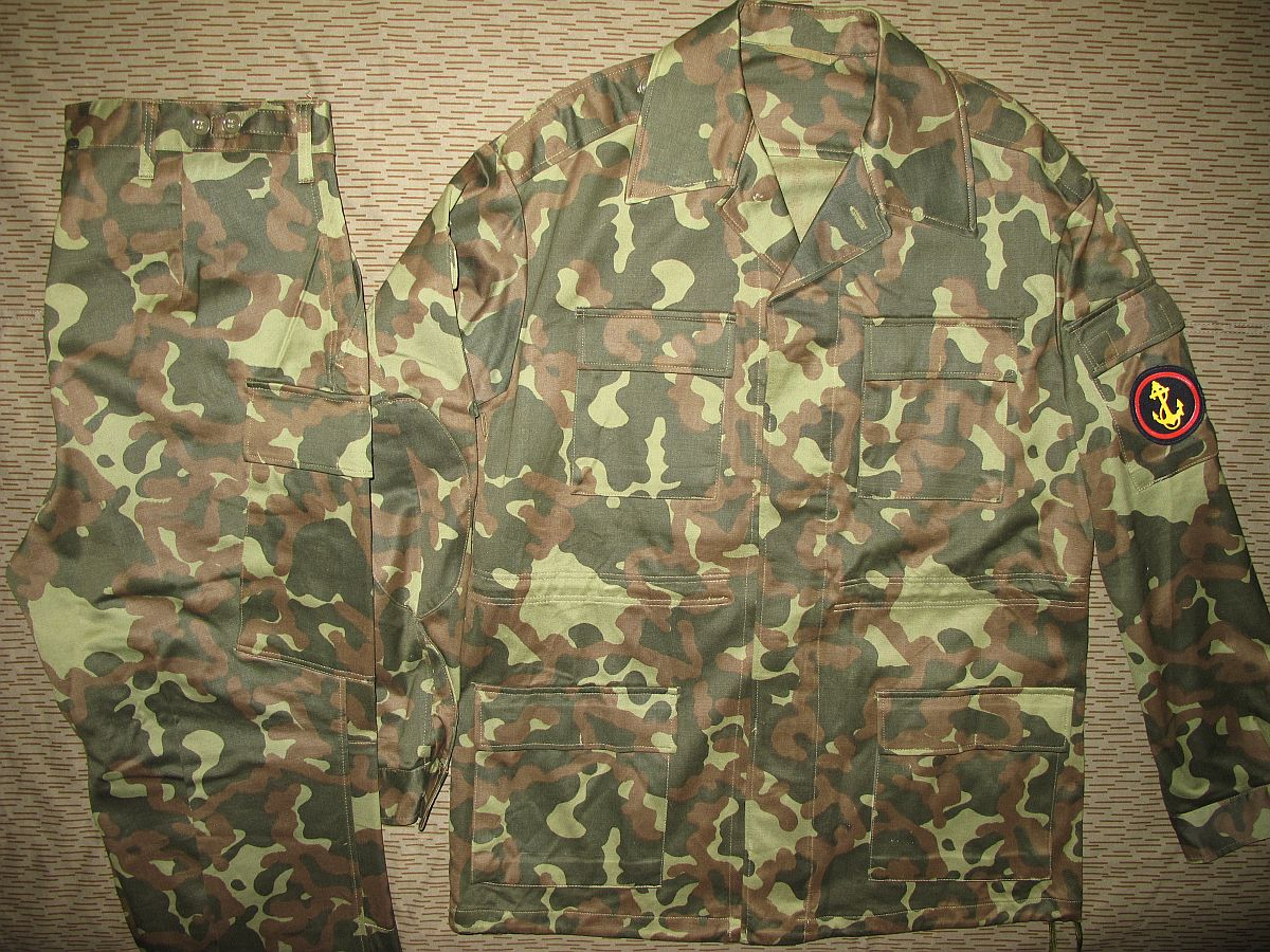 Soviet Marines Butane camouflage uniform, issued 1985.